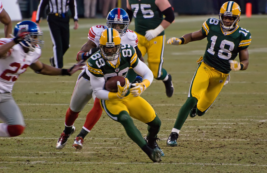 New York Giants vs. Green Bay Packers in the NFC Divisional Playoff Game at Lambeau Field on January 15, 2012. Photo by Mike Morbeck.